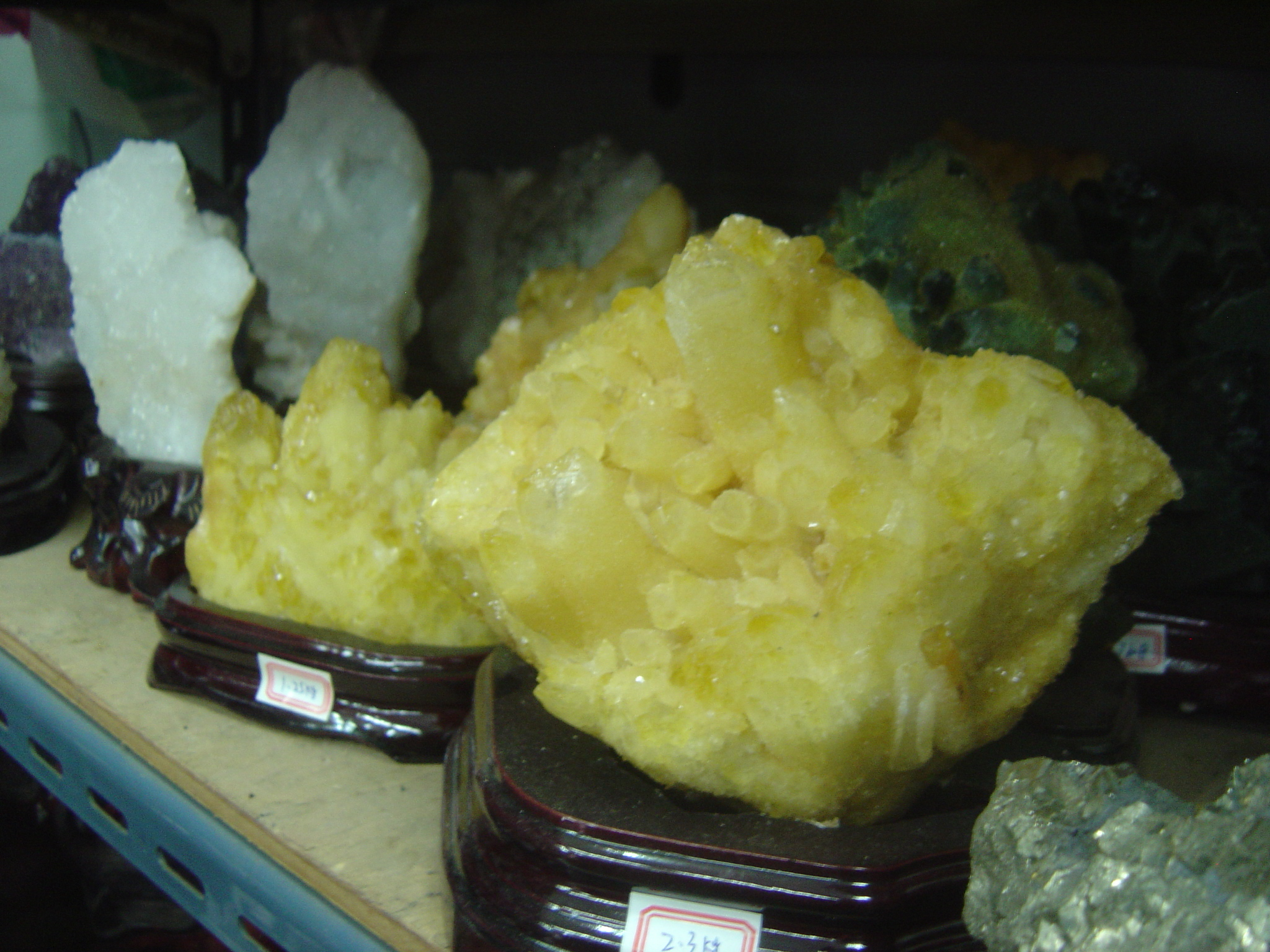 Picture 1/5 Fake mineral - Probably a natural Quartz with a fake yellow crystallization Made in China and sold in a market in Bangkok in Thailand in August 2011